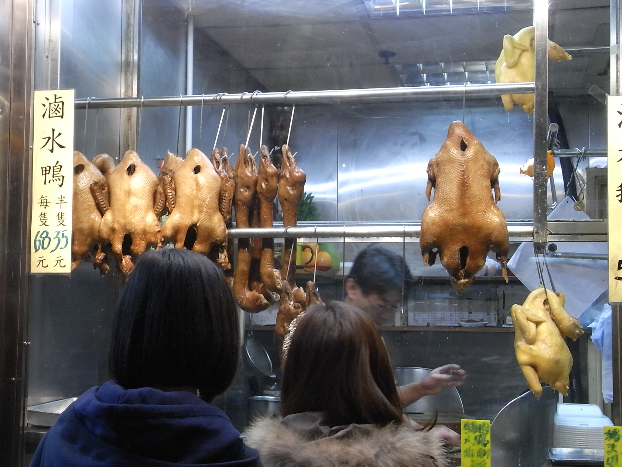 深水埗 美寧中心